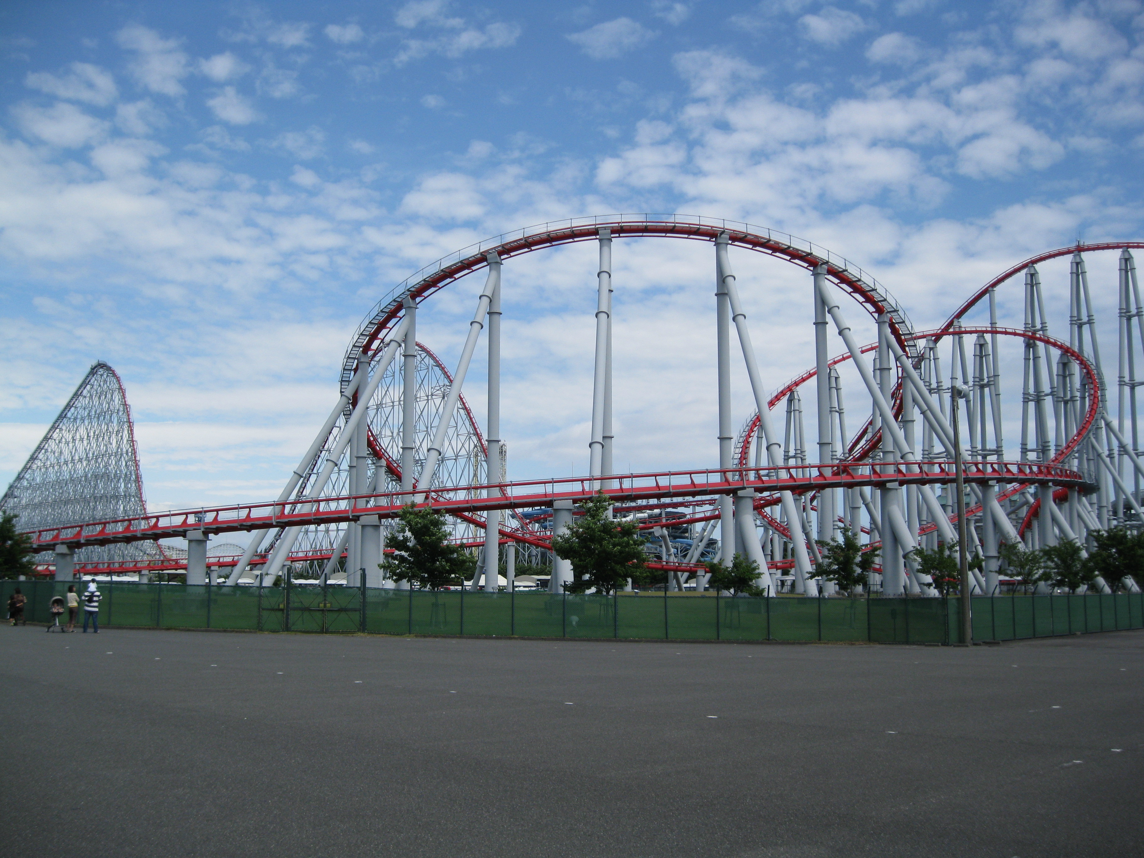 Nagashima Spa Land 01